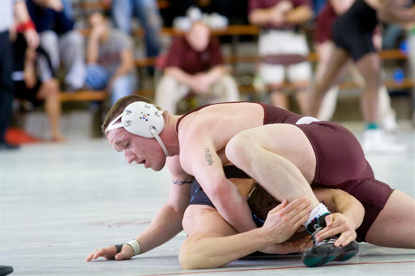 Two college students wrestling (collegiate, scholastic, or folkstyle) in the United States.